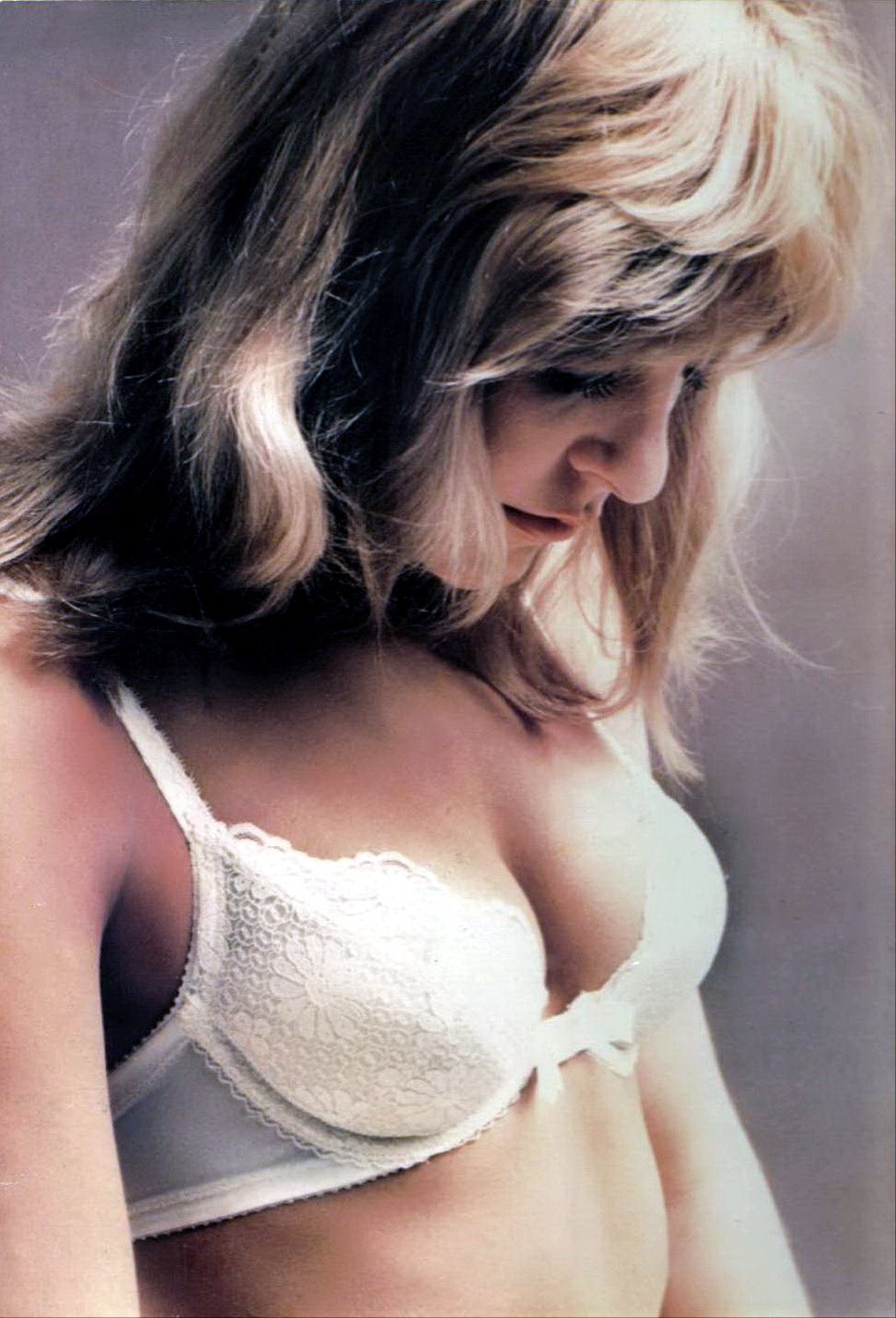 This is a photo of a model from 1975 wearing a Canadian Wonderbra Model 1300 "plunge" style push-up bra. This photo is part of a private collection. Mattnad is the copyright holder.